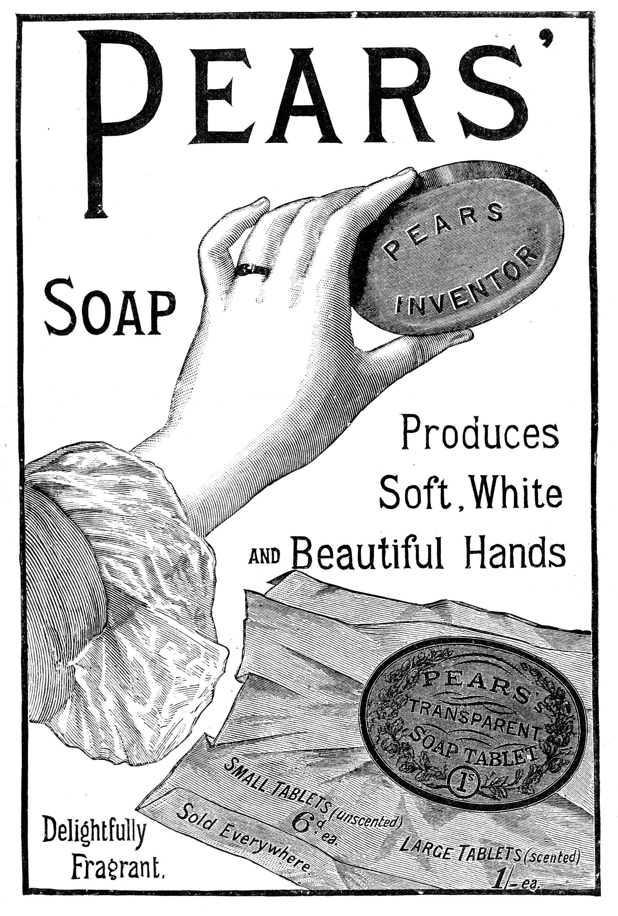 Advertisement for Pears' Soap. 1886